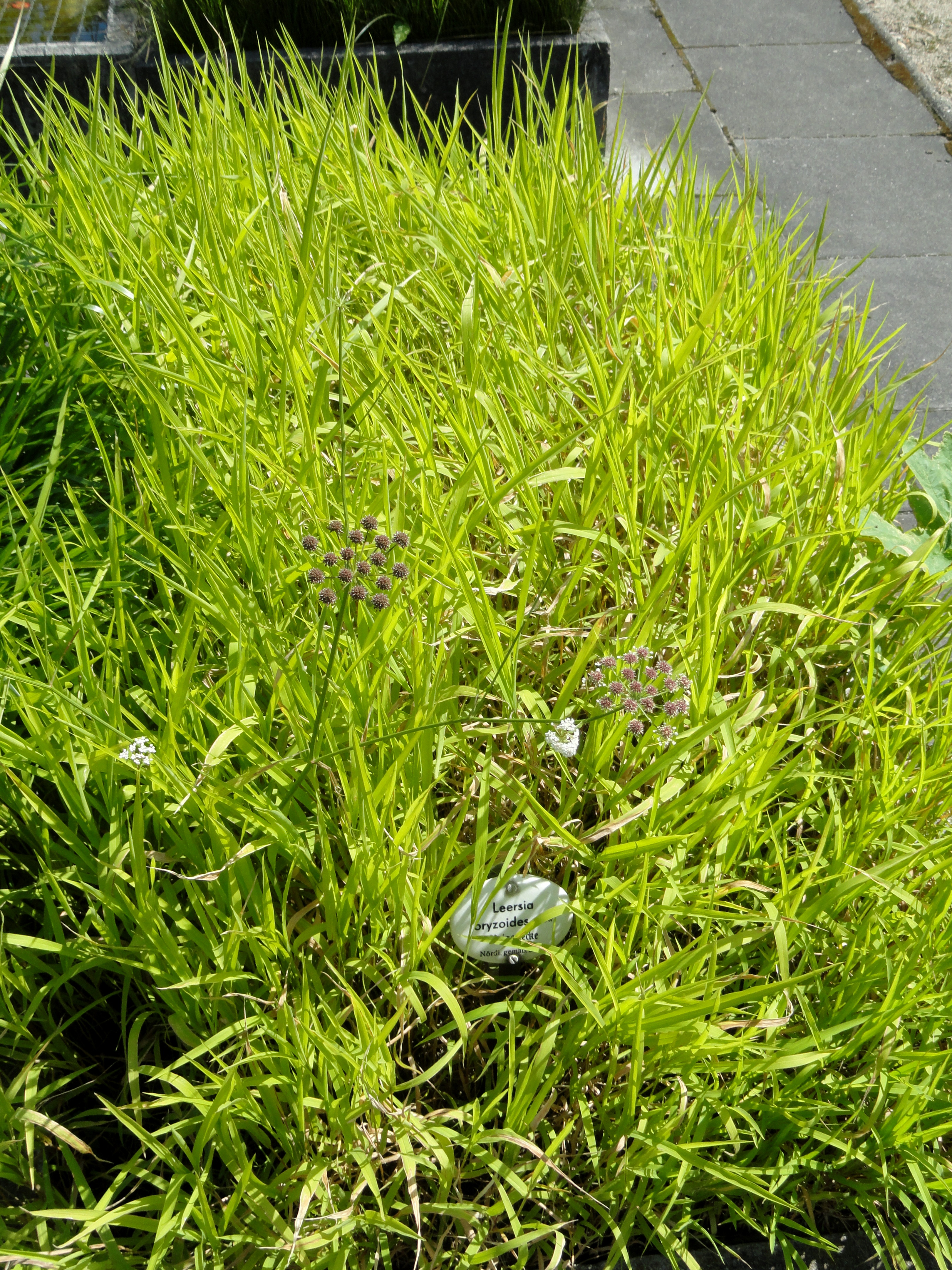 Botanical specimen in the Botanischer Garten, Frankfurt am Main, located at Siesmayerstraße 72, Frankfurt am Main, Germany.